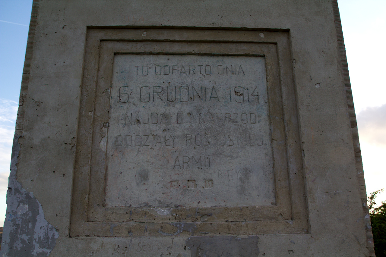 Kaim Hill Memorial